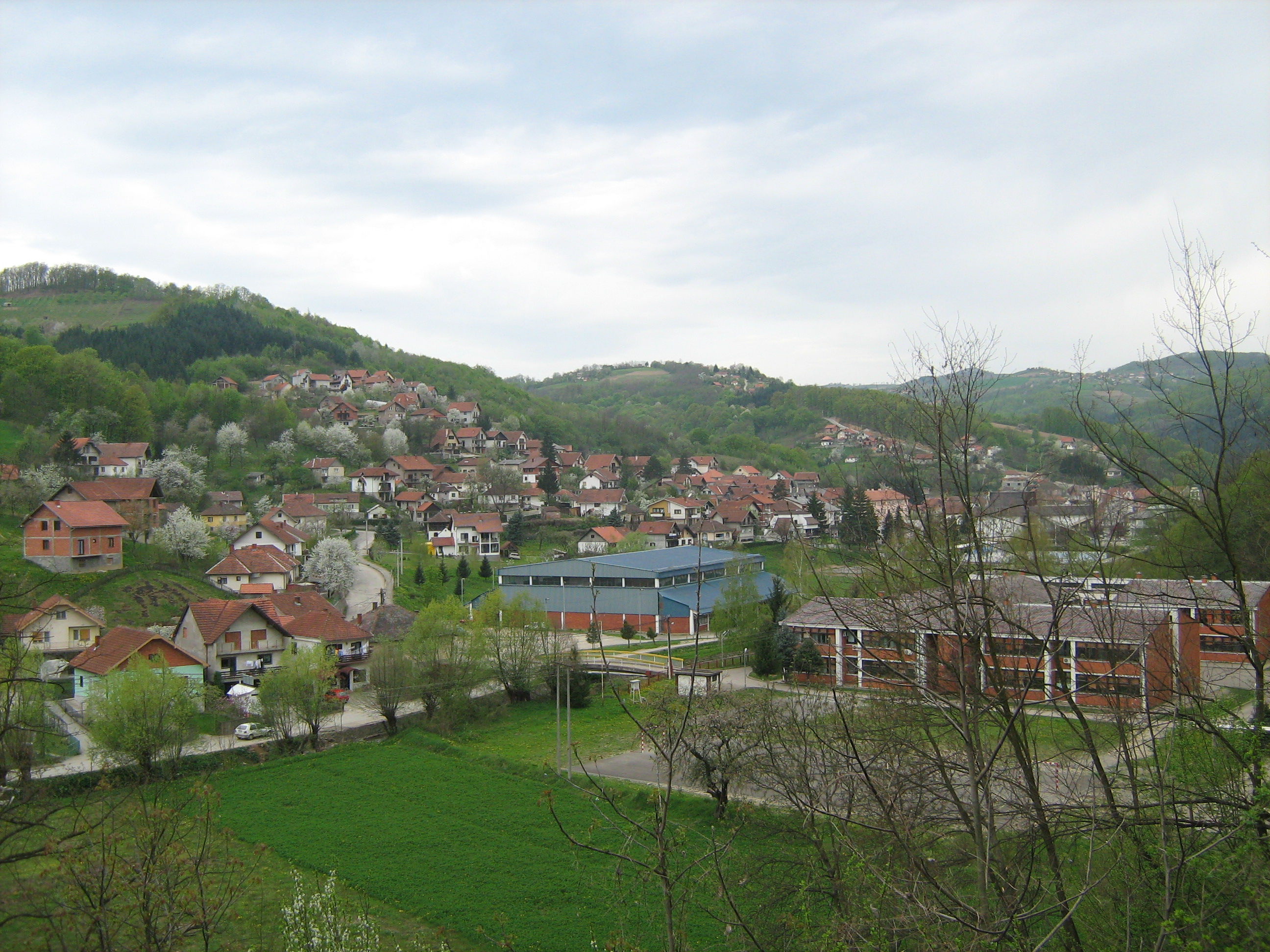 Krupanj